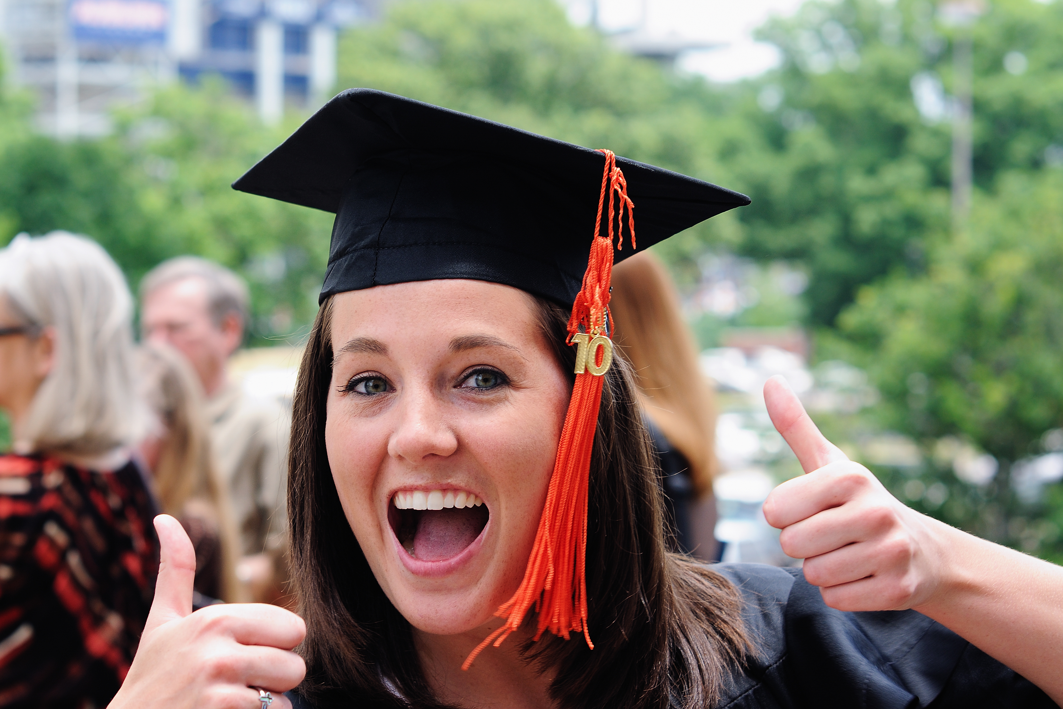 My niece Ashley graduated with Bachelor of Industrial and Systems Engineering Auburn University Commencement May 14, 2010